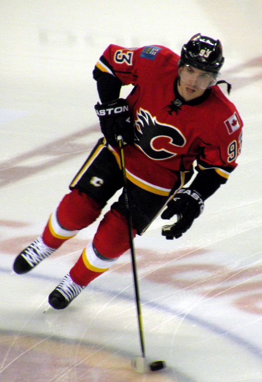 Calgary Flames forward Michael Cammalleri prior to a National Hockey League game against the Chicago Blackhawks.